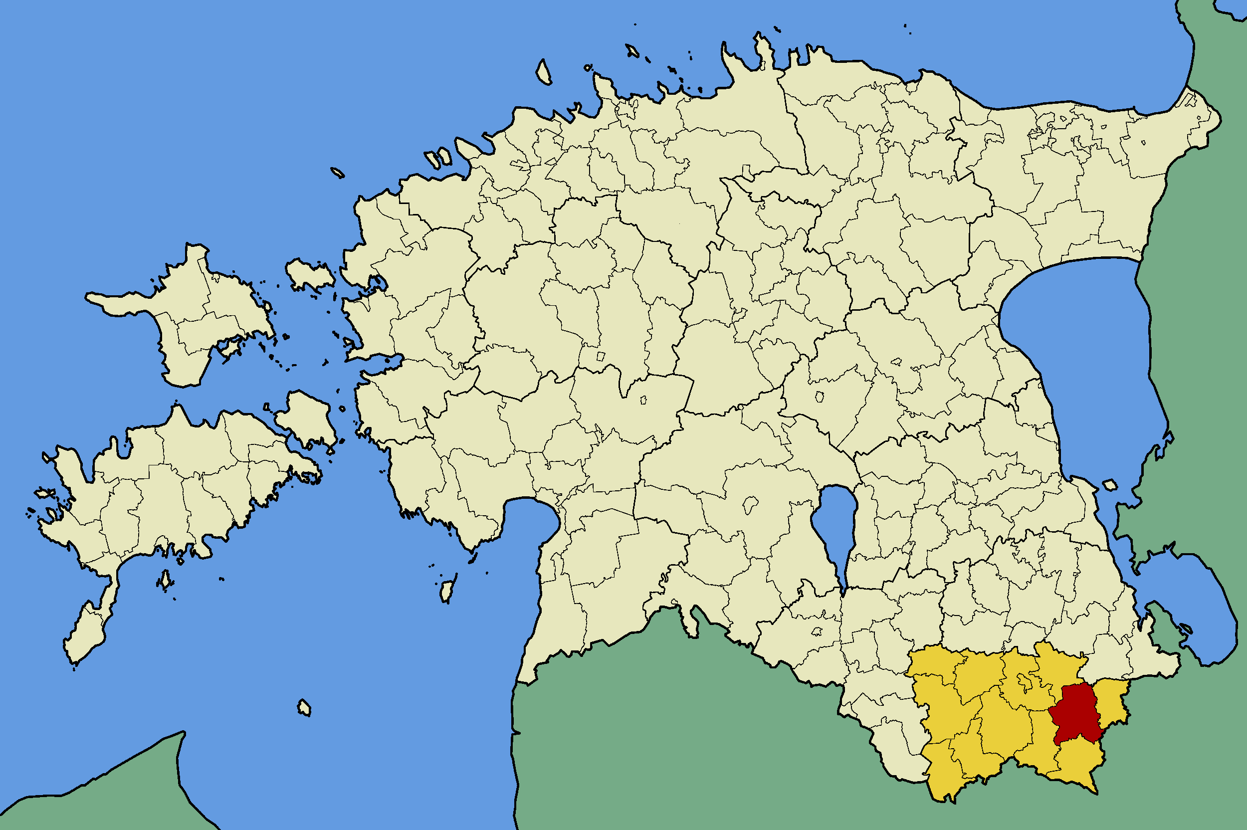 Map of Estonia with borders of municipalities (parishes). Võru county and Vastseliina municipality emphasized.